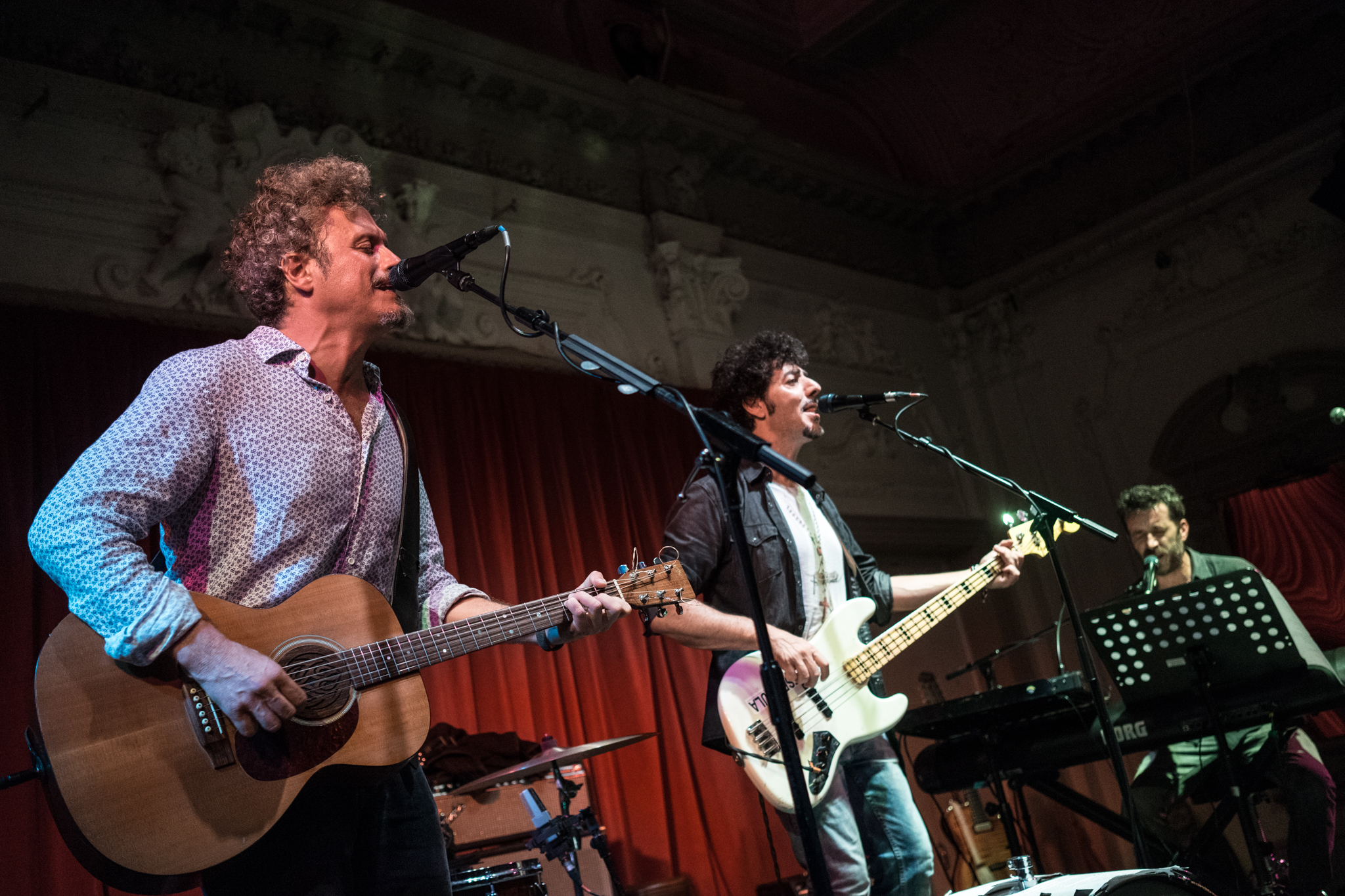 Fabi Silvestri Gazzè live at Bush Hall, London 01/10/2014